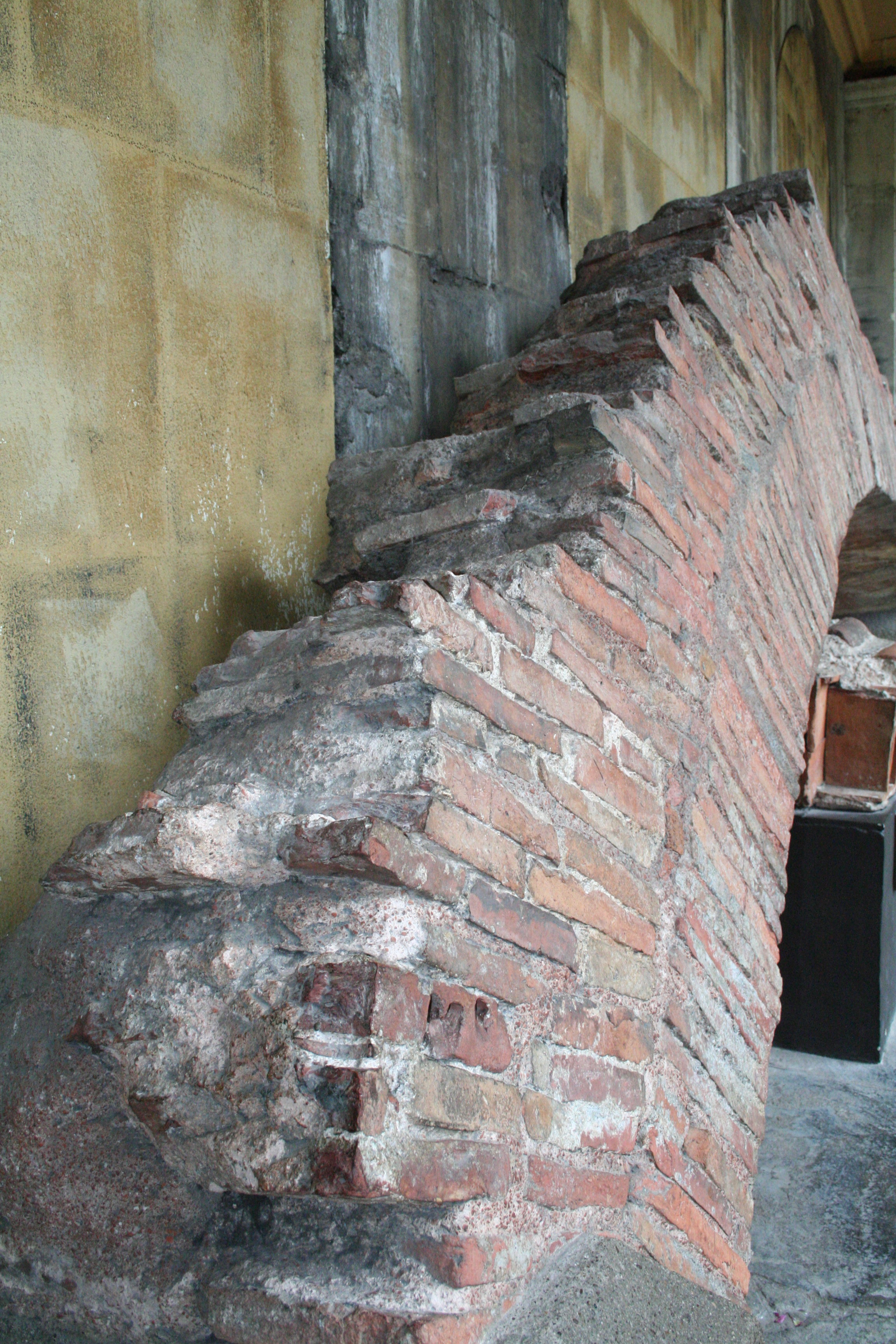 Vault of roman bath in Bath, England